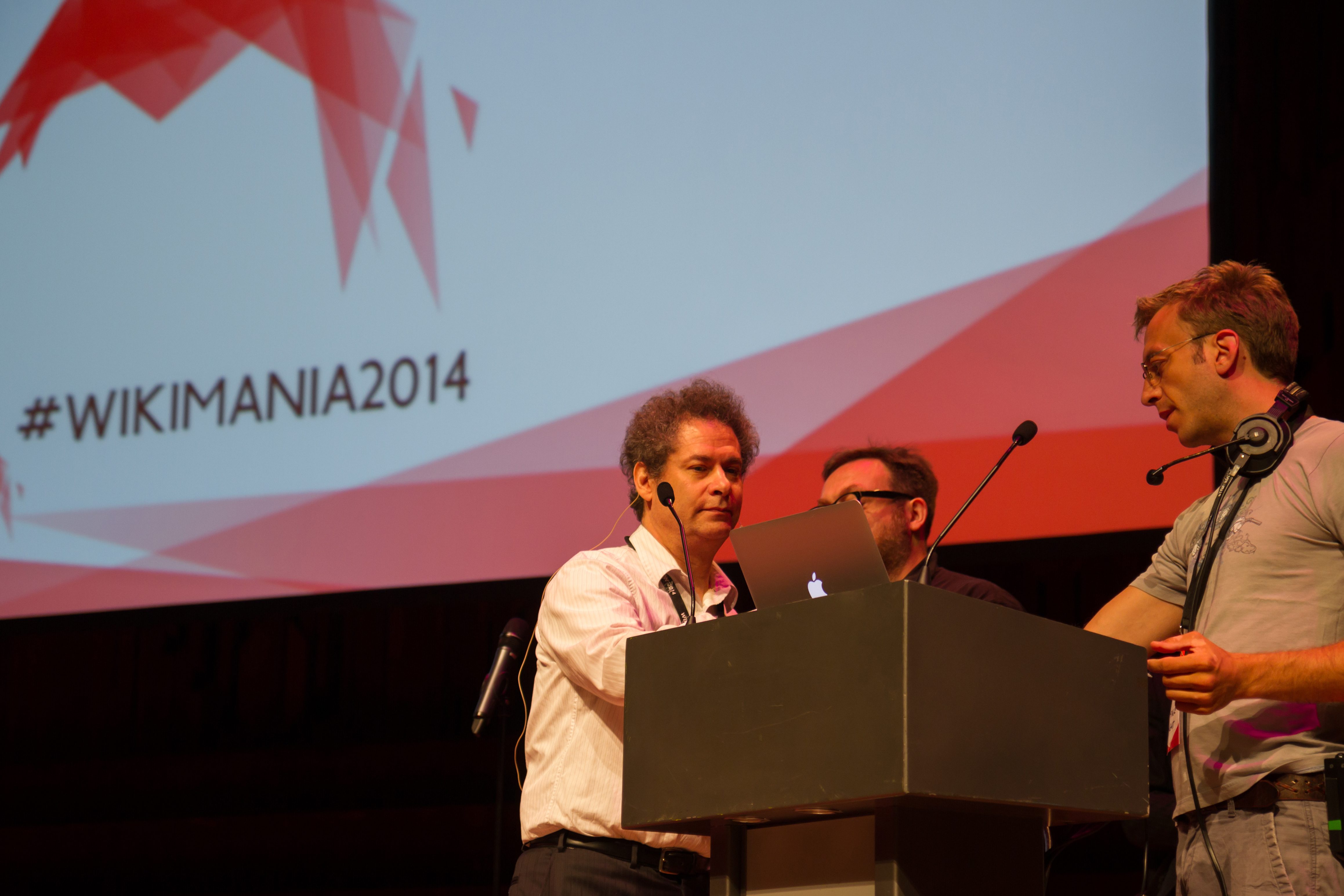 Featured Speaker Yaneer Bar-Yam preparing for his talk in the Barbican Hall on Day 2 of Wikimania 2014.